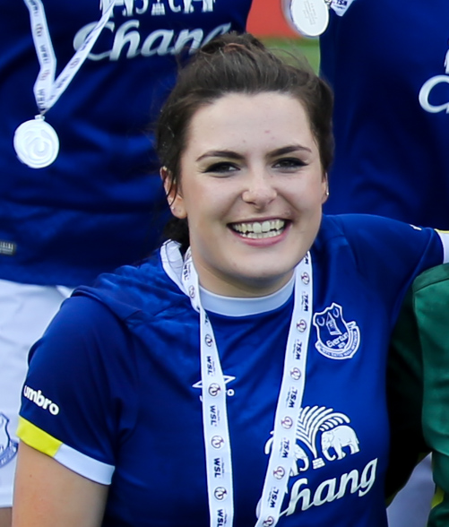 London Bees v Everton LFC, 20 May 2017